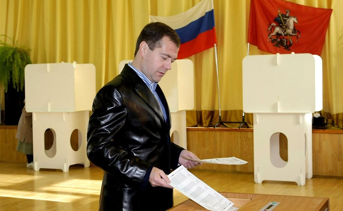 MOSCOW. Russian President Dmitry Medvedev casts his ballot at polling station No. 2627 during the election to the fifth Moscow City Duma.